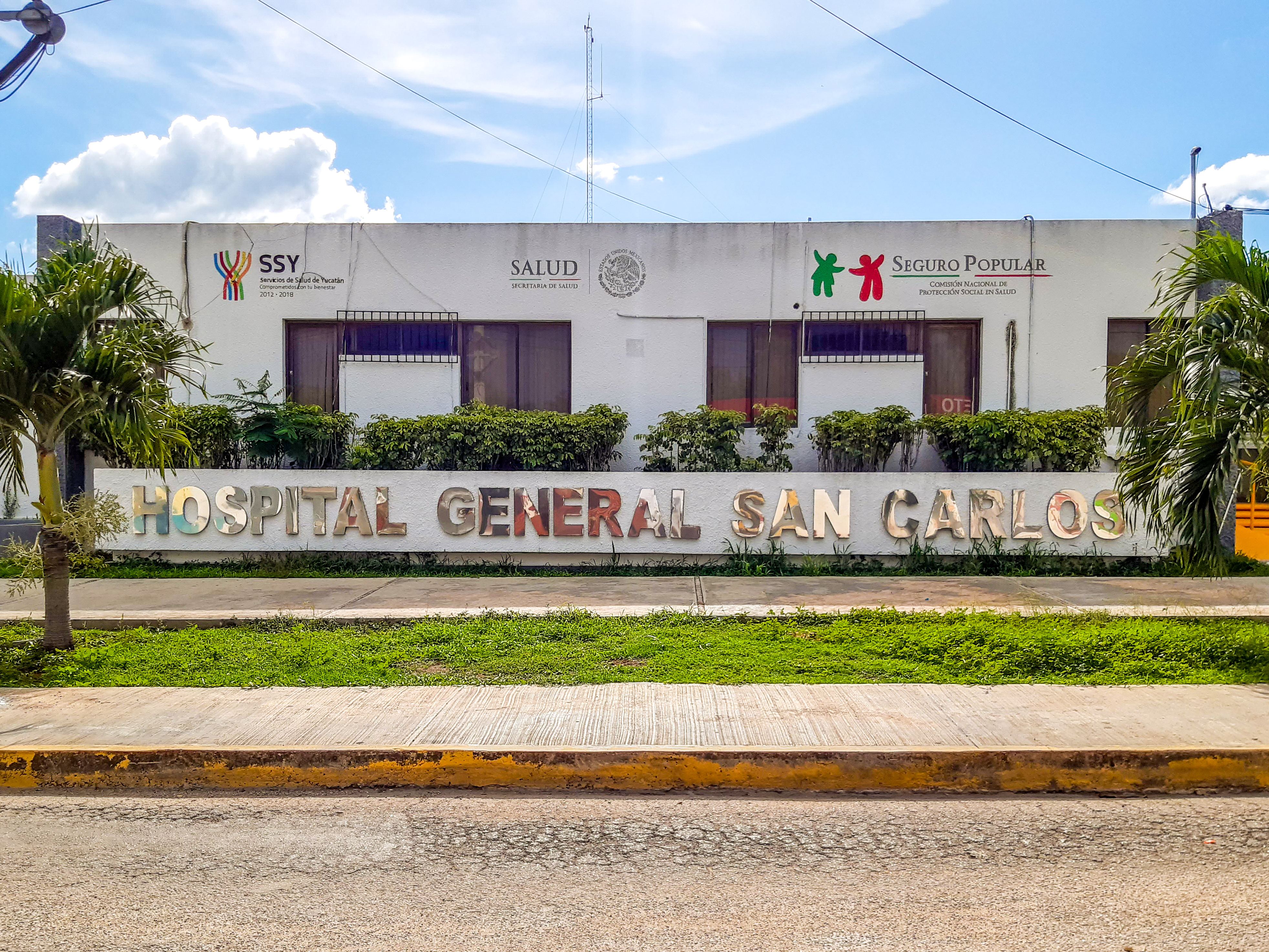 Hospital in Tizimin.